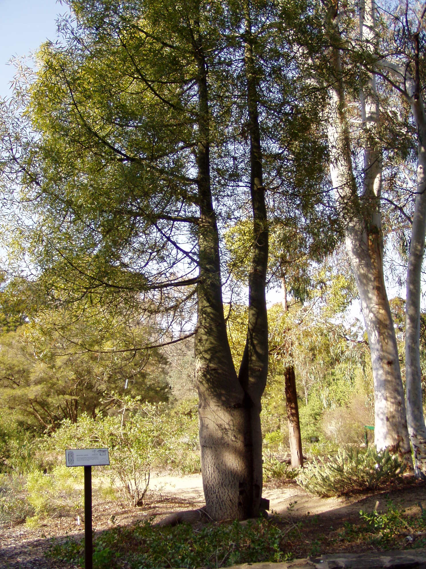 Description: Queensland Bottletree (Brachychiton rupestris) Location: Australian National Botanic Gardens, Canberra, Australian Capital Territory, Australia Date: 2005-09-21 Source: picture taken by Danielle Langlois Licence: Released under GFDL and Creative Commons licenses by the photographer